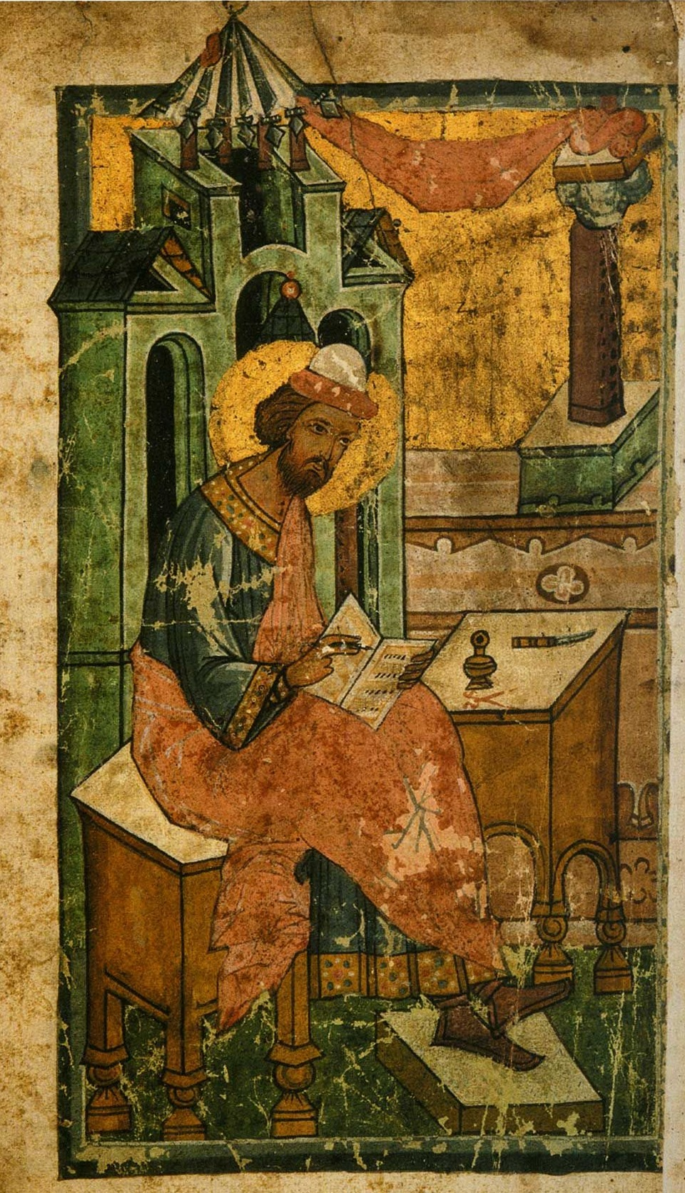 Portrait of Cosmas Indicopleustes, from Russian manuscript of XV c., owned by count A. S. Uvarov. Reproduced from Vizantiiskiy Vremennik, 1905